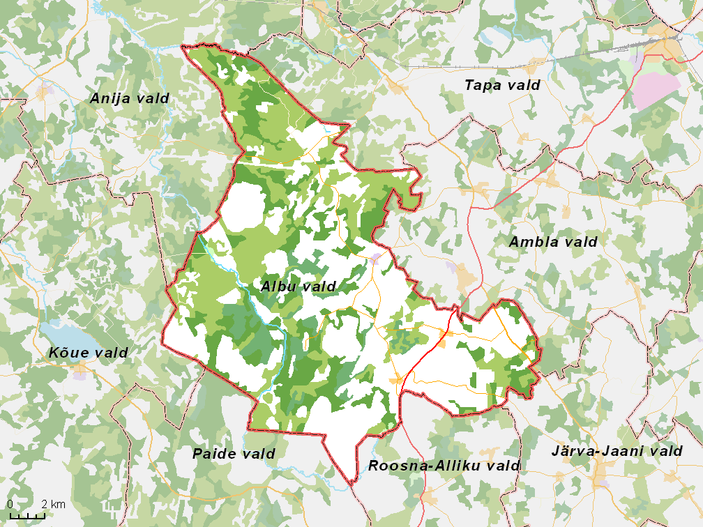 Map of municipality in Estonia